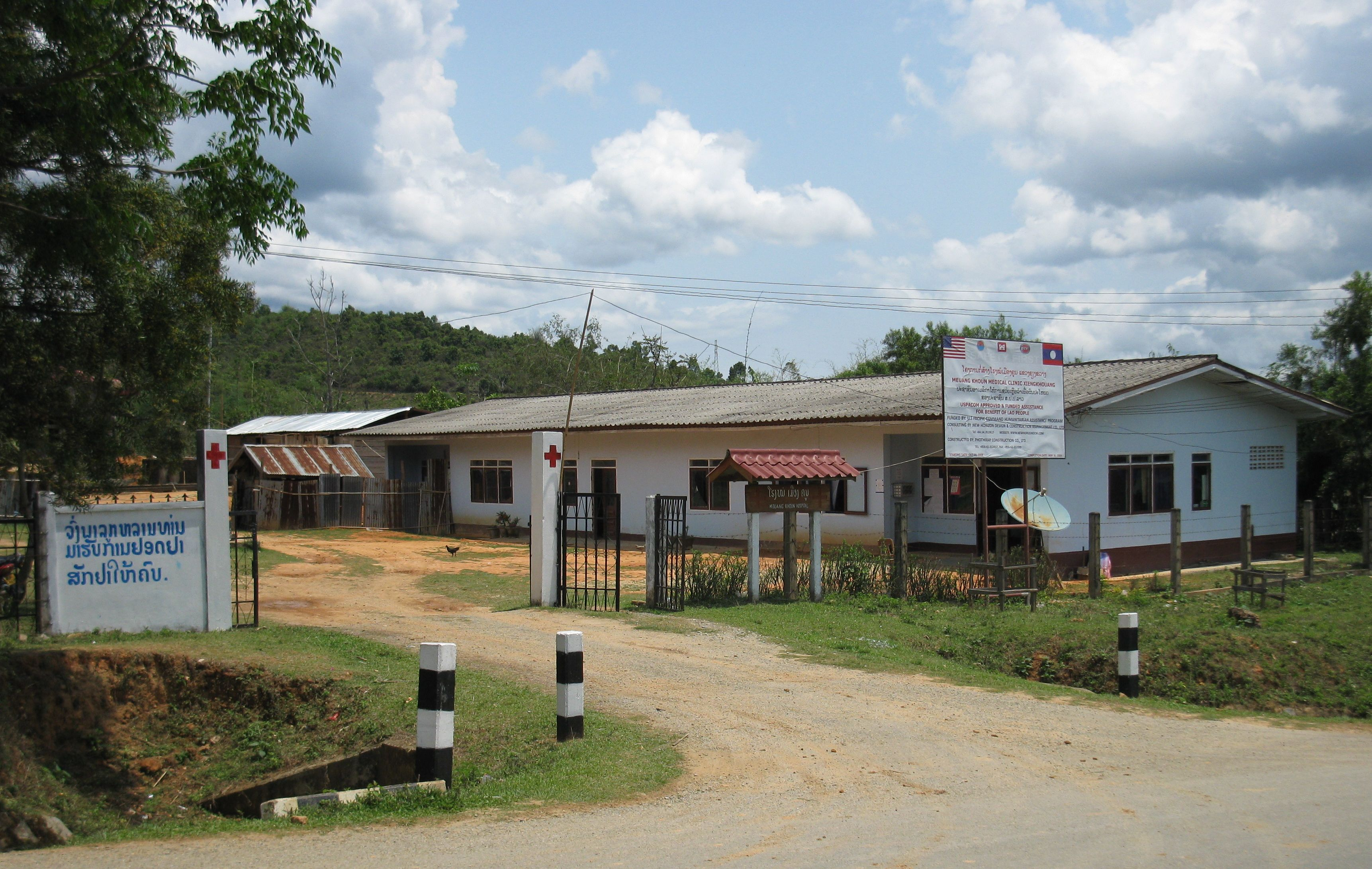 Hospital, Muang Khoun, Xieng Khouang Province, Laos